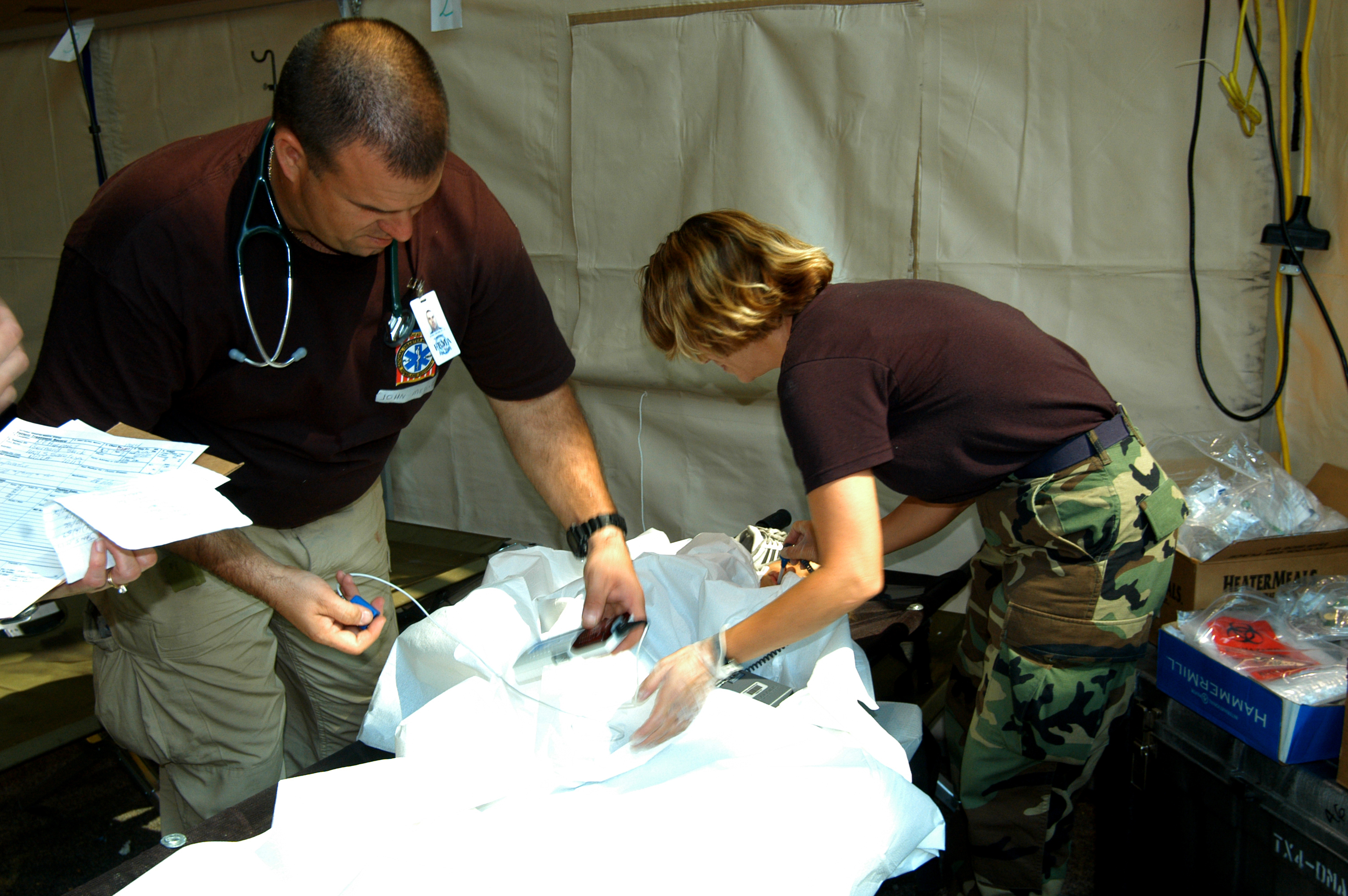 New Orleans, September 4, 2005 - A military doctor (left) and registered nurse tend to the needs of an evacuee brought to the airport from the city. Thousands of residents left homeless and injured by Hurricane Katrina are being evacuated from the airport to selected shelters throughout the country. New Orleans is being evacuated due the the flooding caused by hurricane Katrina. Photo by Win Henderson/FEMA